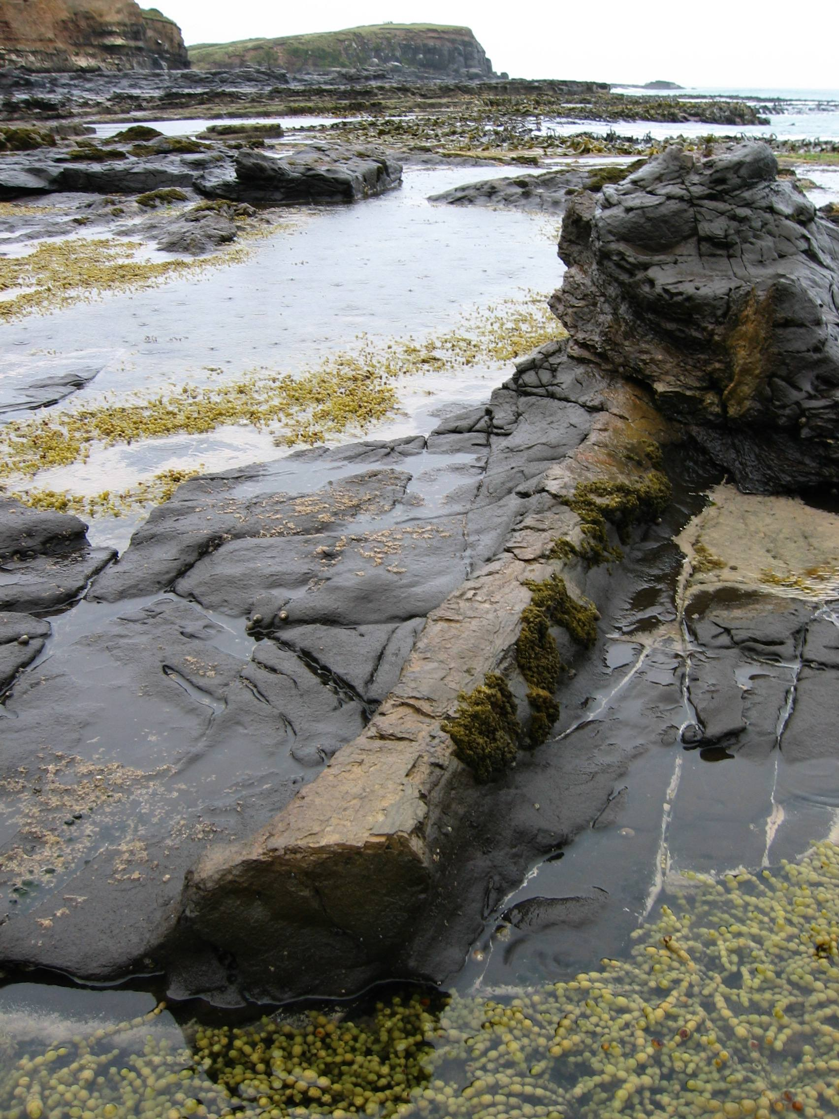 A petrified log embedded in rocks at Curio Bay, in the Catlins, New Zealand. (For scale, the beads on the Neptune's necklace in the foreground are up to 1 cm in diameter.)